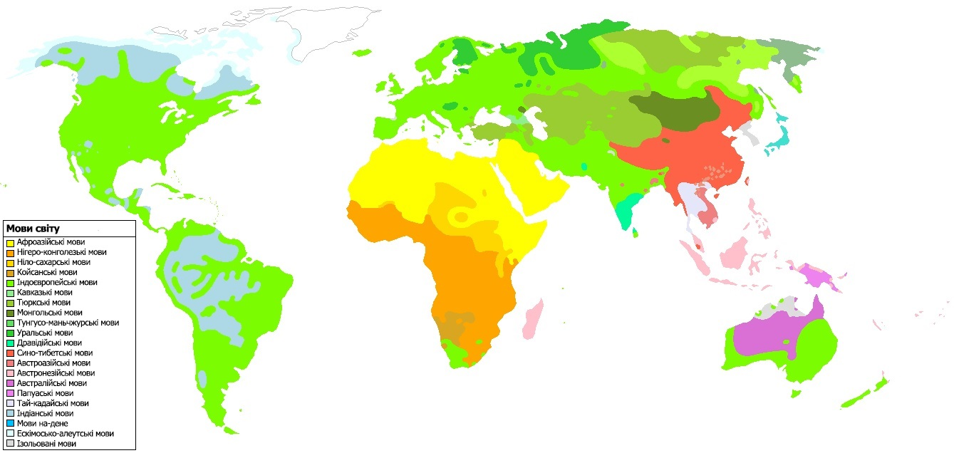 Language families in Ukrainian.